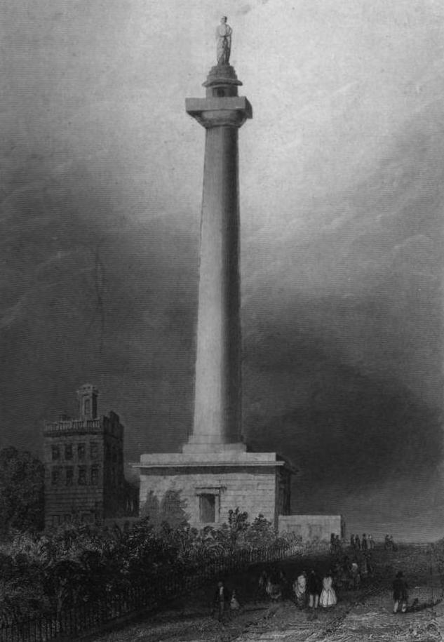 Washington's Monument, Baltimore